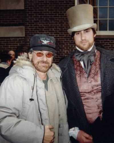 Director Steven Spielberg and Eric Bruno Borgman on the set of Amistad.